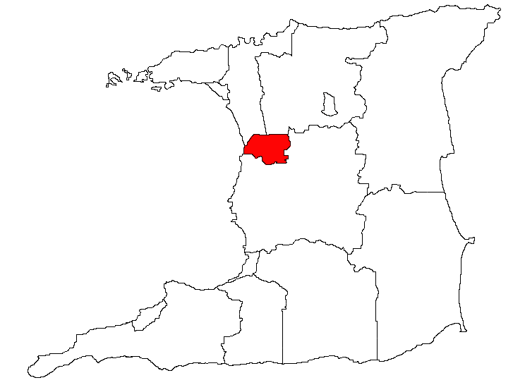 Location map of the Borough of Chaguanas, Trinidad and Tobago